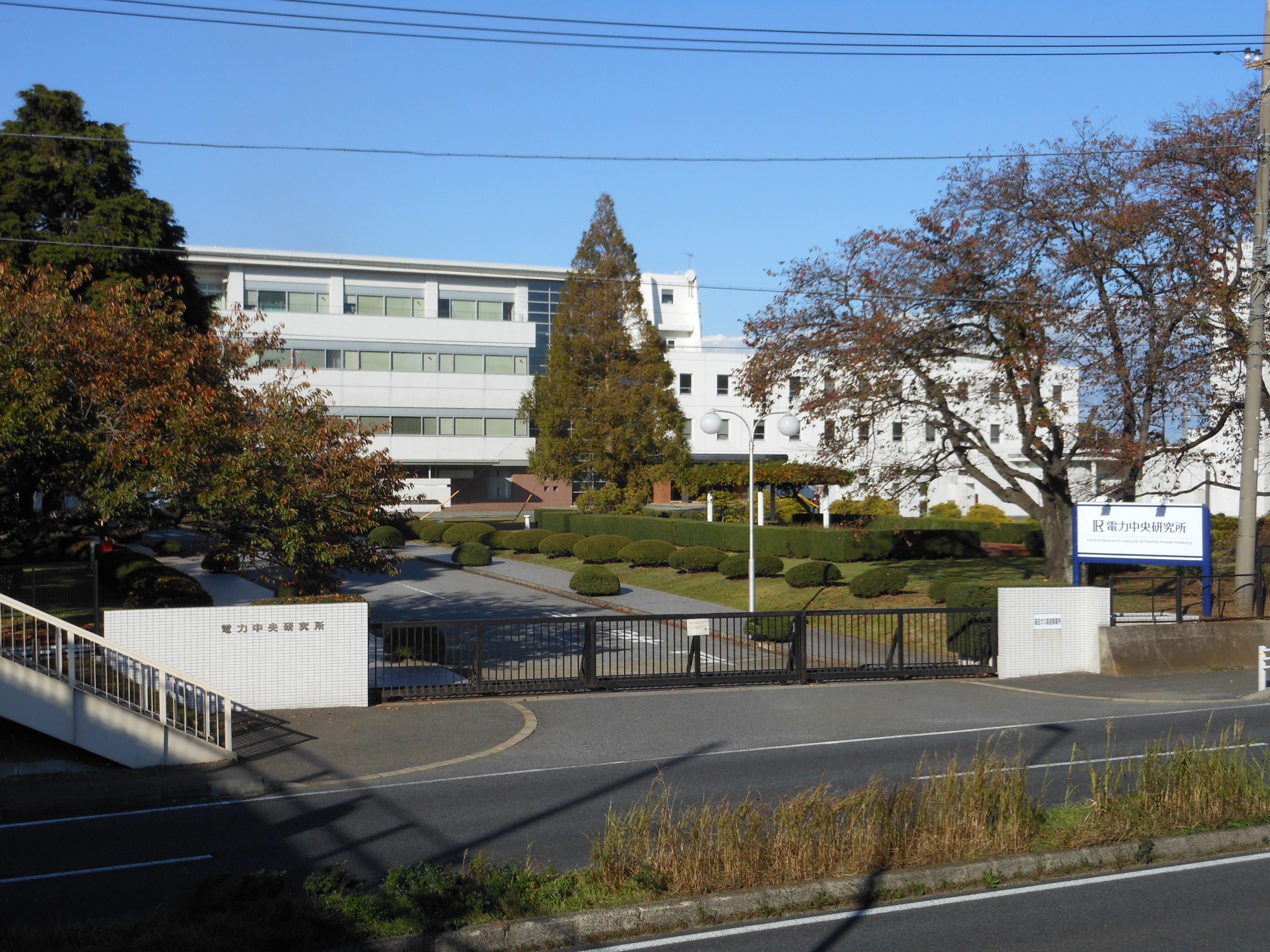 This is Central Research Institute of Electric Power Industry Abiko Area in Abiko city, Chiba prefecture, Japan.